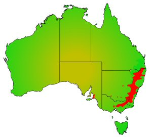 A map of Australia showing the distribution of Galaxias olidus, the mountain galaxias